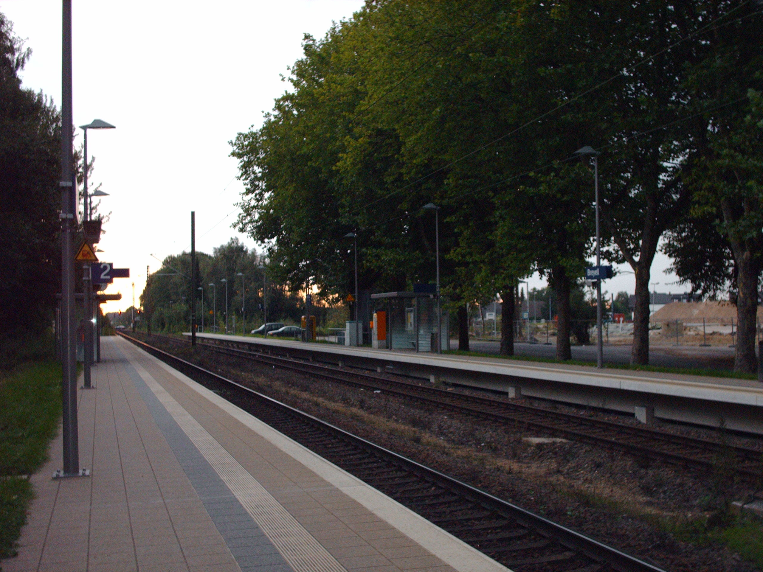 Breyell station, Nettetal, Germany check usage